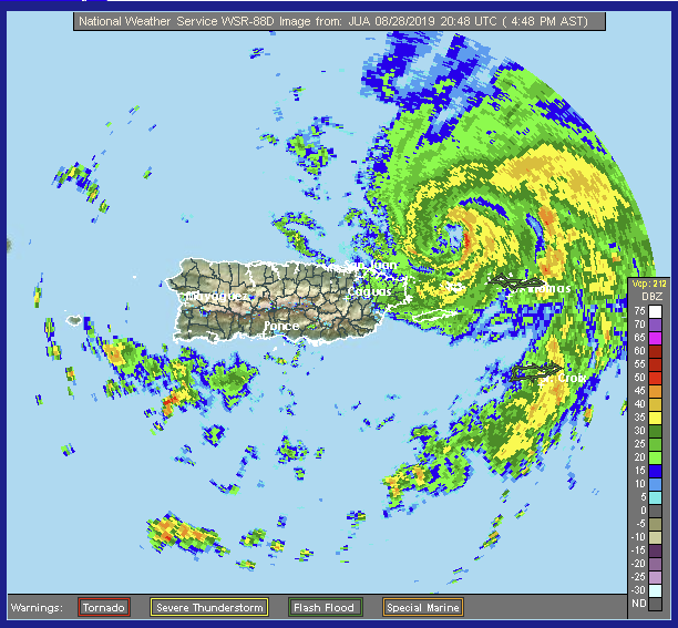 NWS Radar image from San Juan, Puerto Rico. Showing Hurricane Dorian passing northeast of Puerto Rico